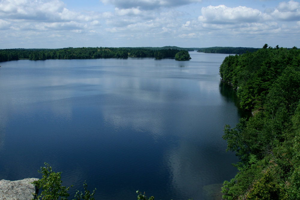 A view Big Salmon Lake in Frontenac Provincial Park, OntarioView of Big Salmon